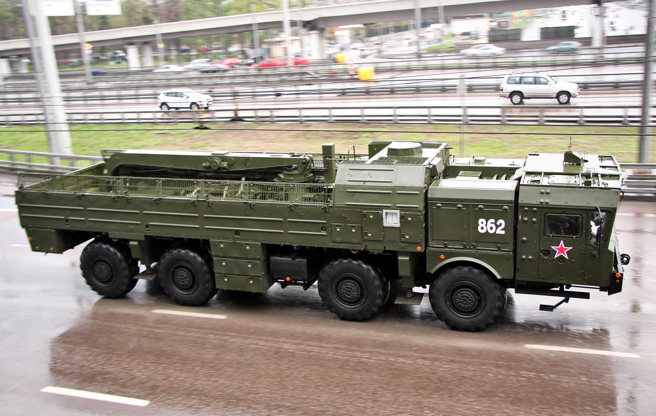 2011 Moscow Victory Day Parade